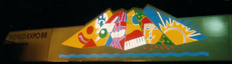 Logo for World Expo '88, which was held in Brisbane, Queensland, Australia during 1988.